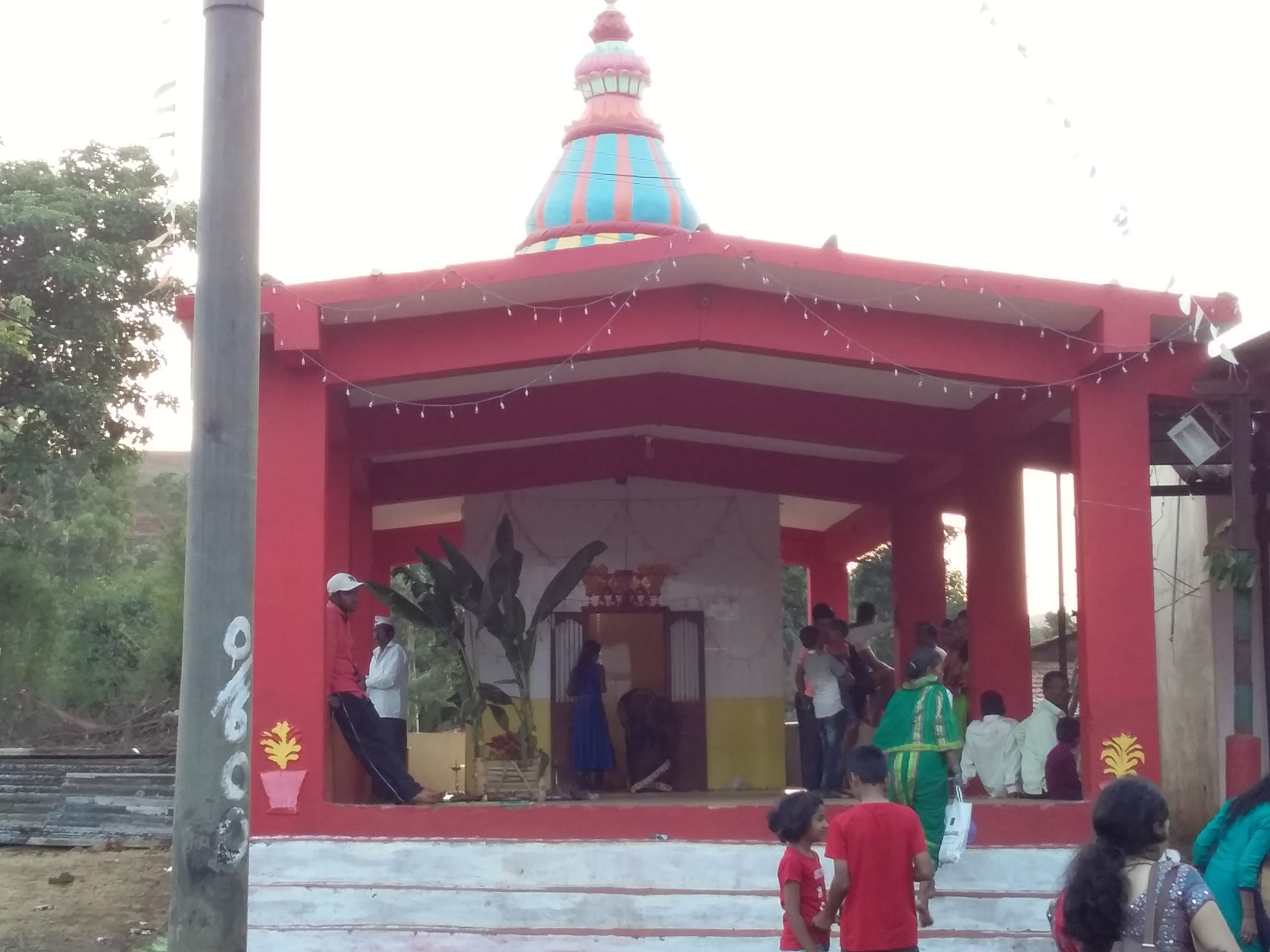 Narsinha Temple in Maharashtra, India